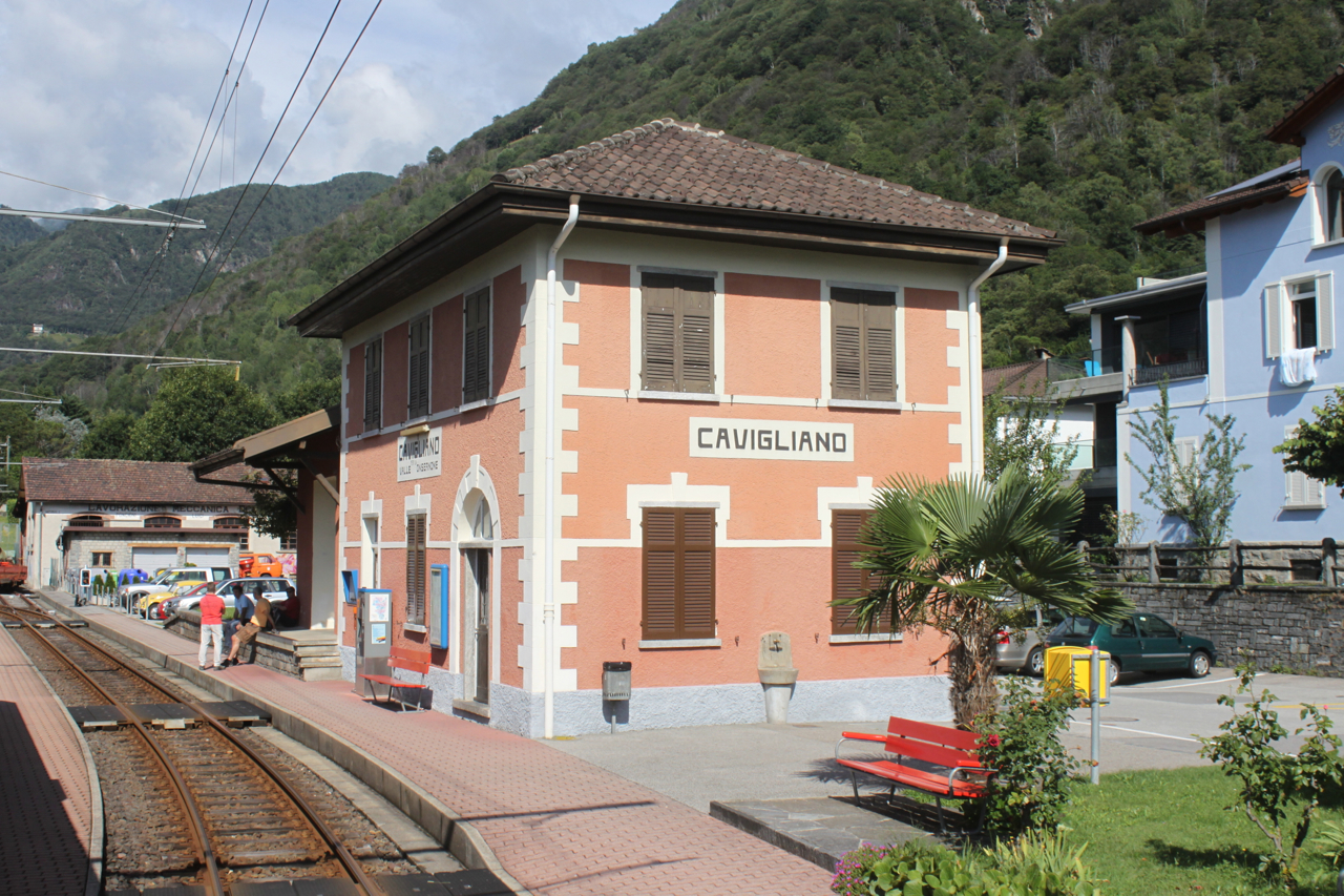 Cavigliano train station.